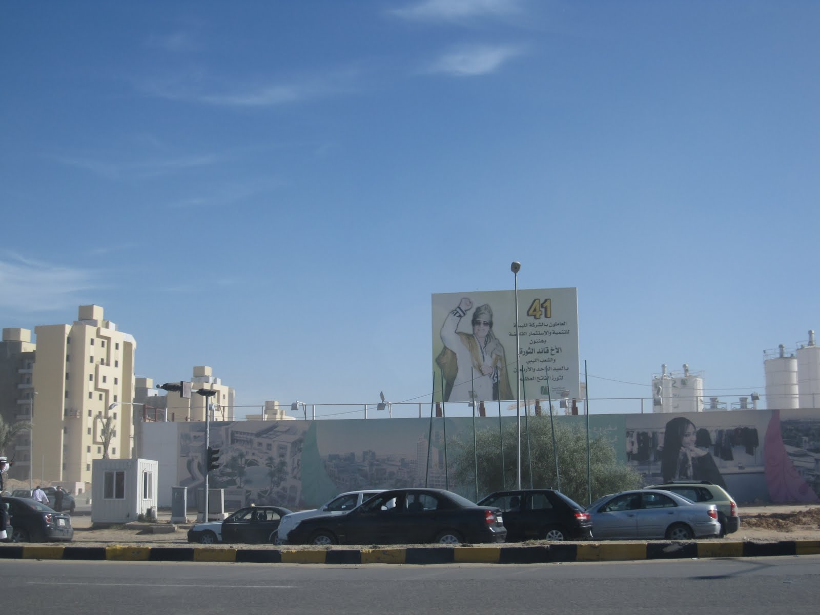 Libyan leader Muammar Gaddadi photo in Bab-al-aziziyah, Tripoli, Libya. 24 November 2010.